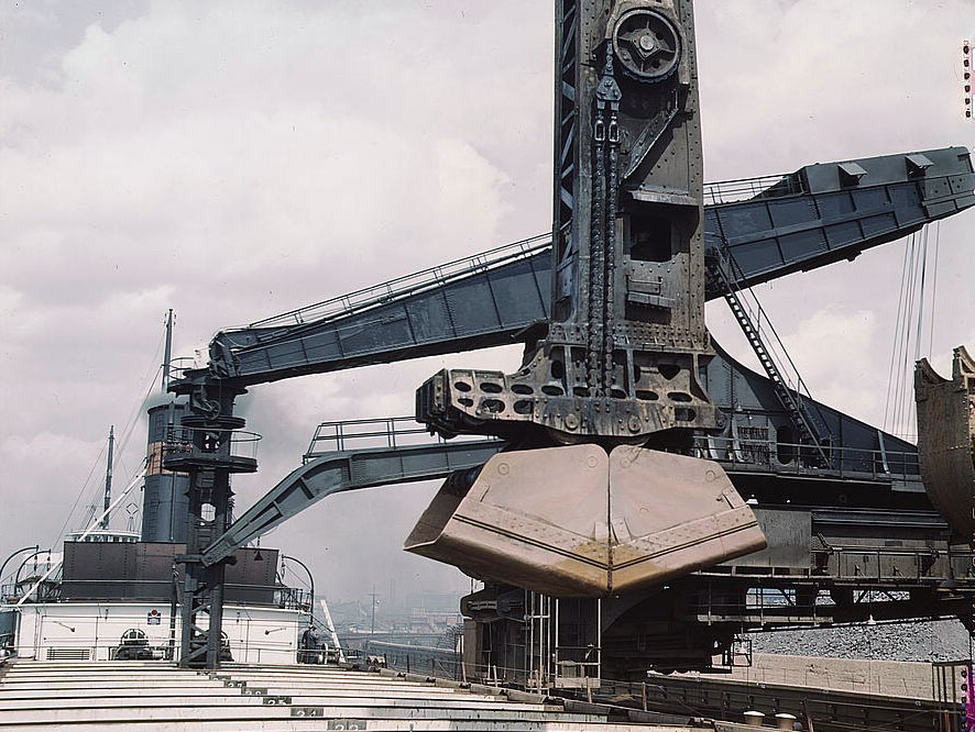 Hulett iron ore unloaders at the Pennsylvania Railroad docks at Cleveland in May 1943. Photo by the Farm Security Administration - Office of War Information Collection at the Library of Congress.